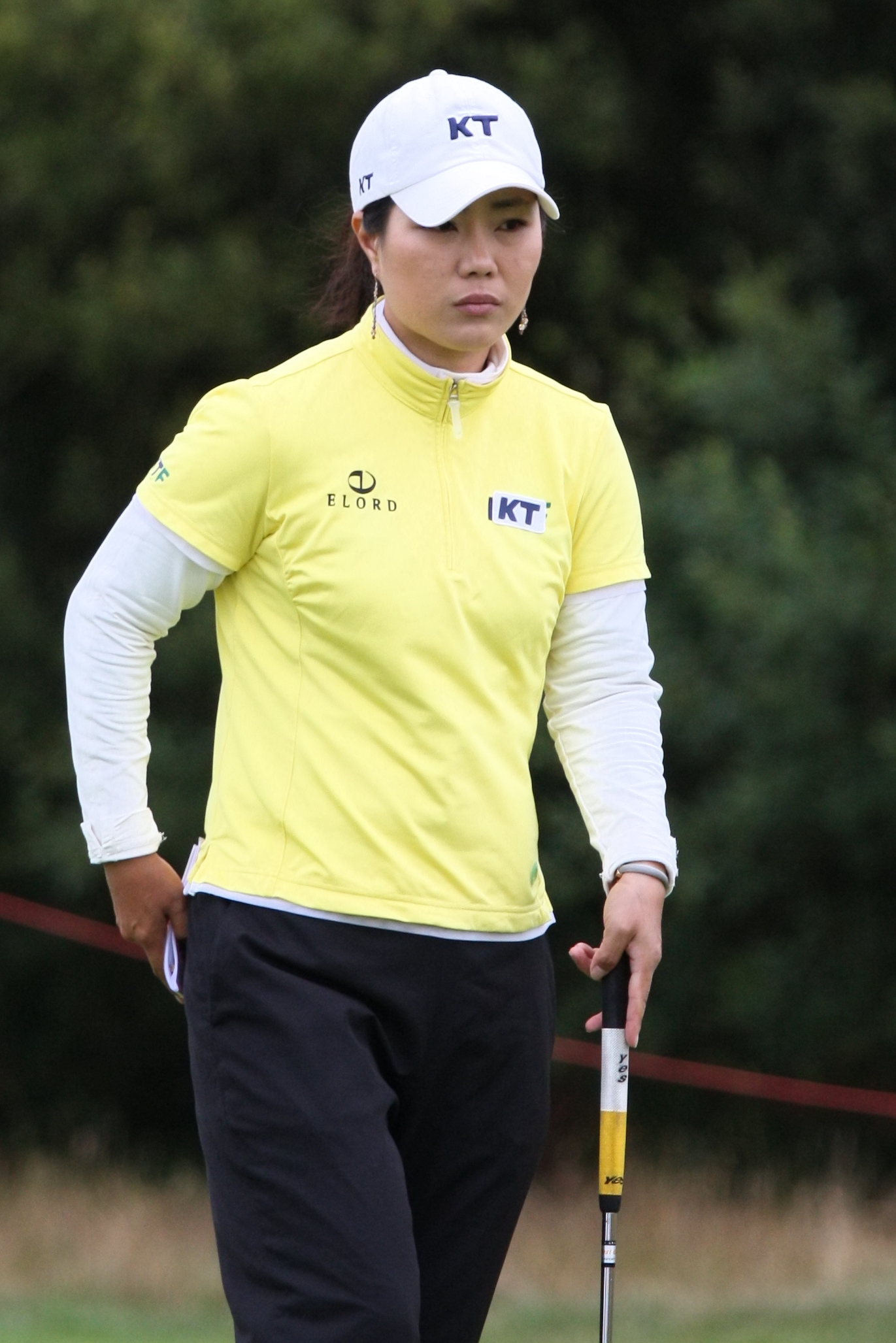 LYTHAM ST ANNES, UNITED KINGDOM - JULY 29: Meena Lee of South Korea on the 11th green during third practice round before 2009 Ricoh Women's British Open held at Royal Lytham & St Annes on July 29, 2009 in Lytham St Annes, England. (Photo by Wojciech Migda)